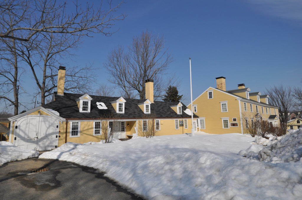 The Ladd-Gilman House, part of the American Independence Museum in Exeter, New Hampshire.